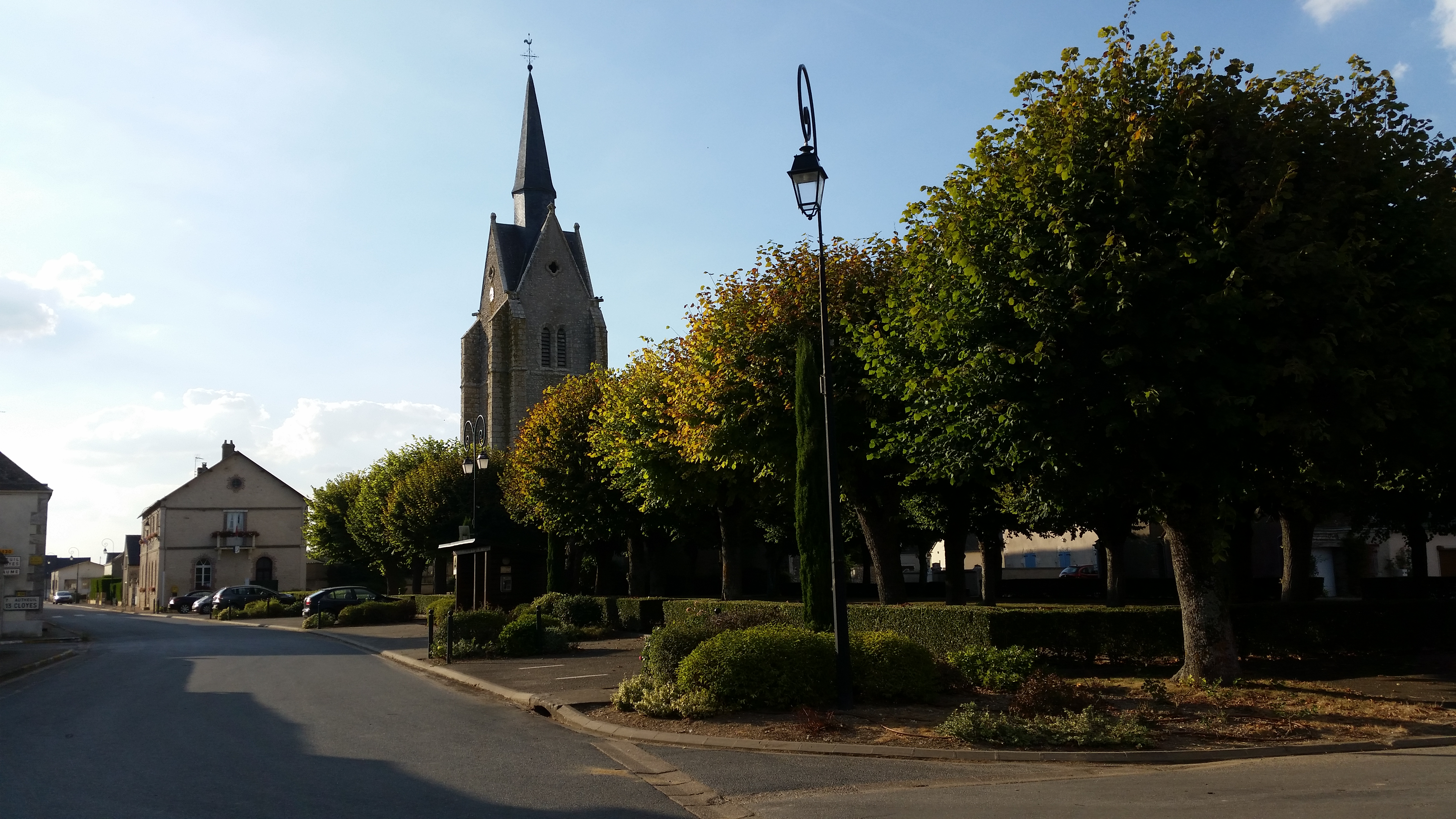 The town hall and the church of Thiville, Eure-et-Loir, France.